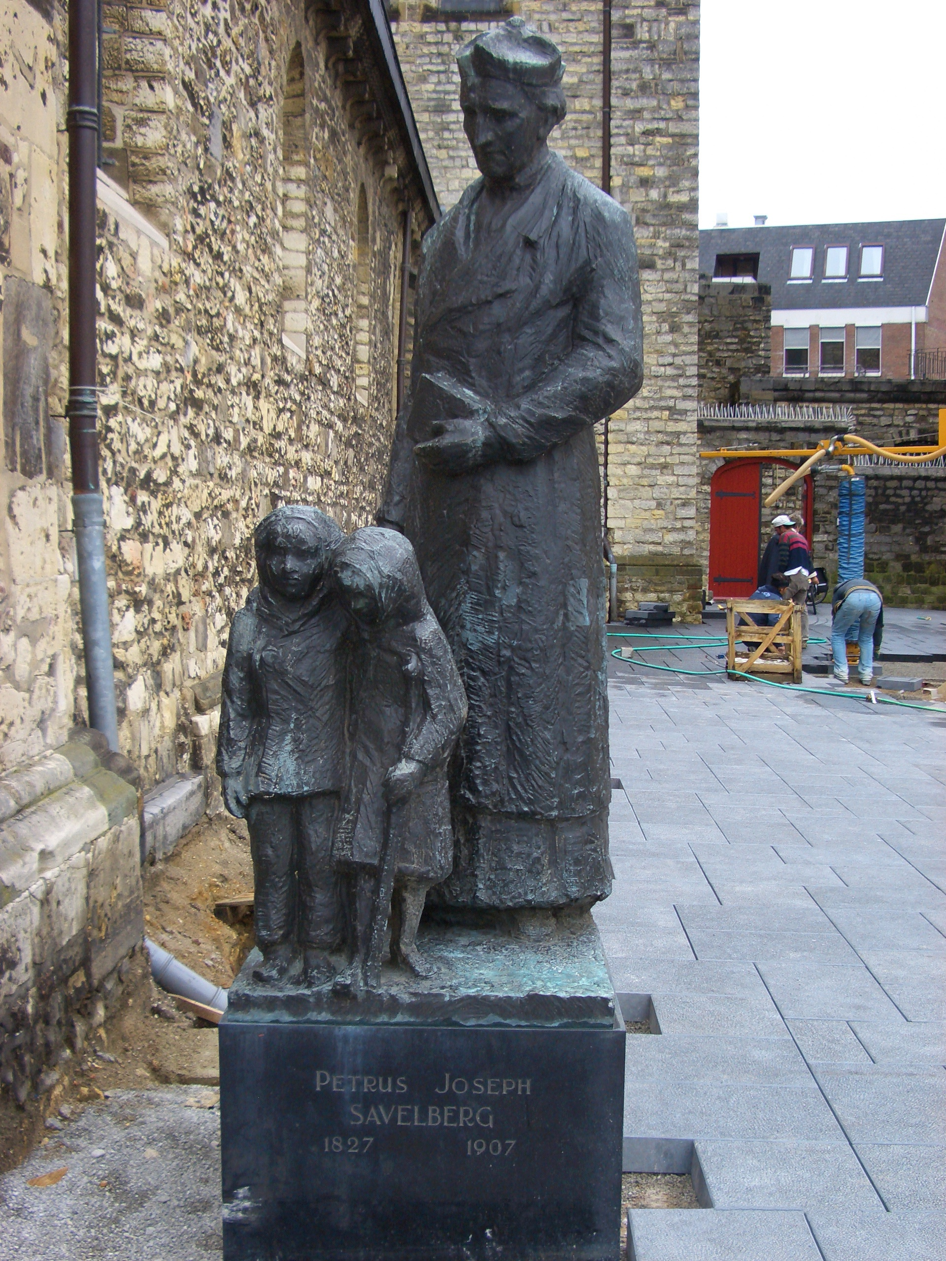 Picture of a statue of Joseph Savelberg in Heerlen, taken by me, Maarten van Wesel on the 27th of May, 2006